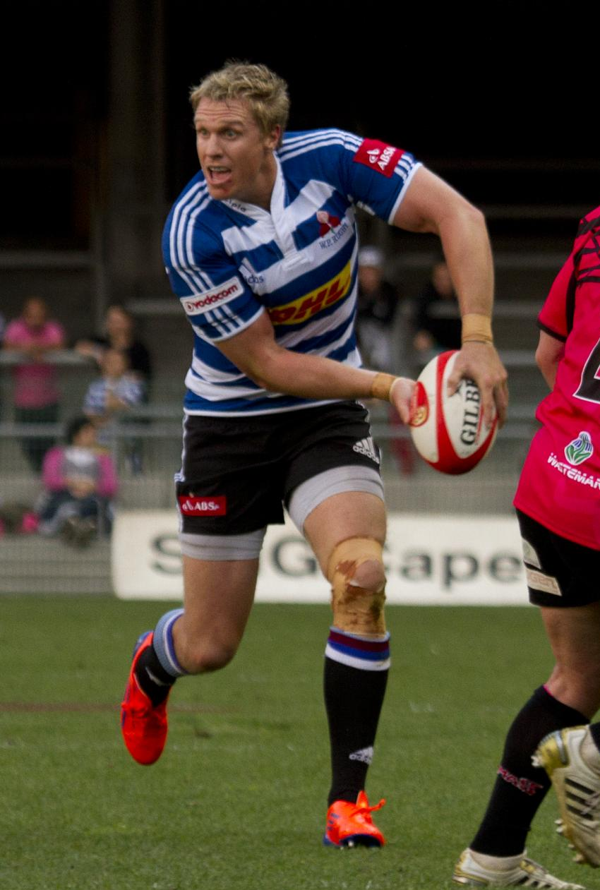 South Africa international rugby union footballer Jean de Villiers during the game Western Province vs Pumas at Newlands Stadium in Cape Town